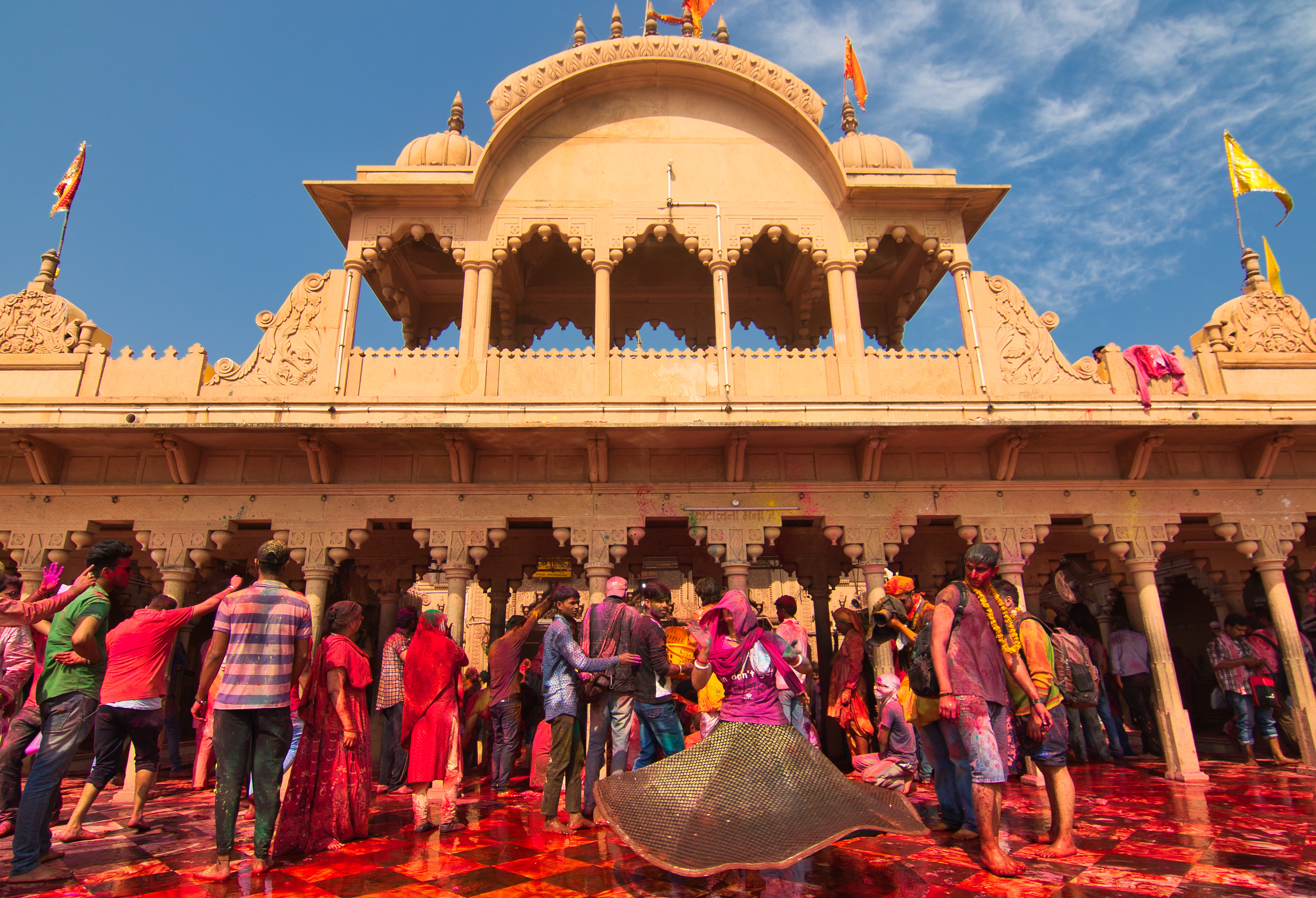 Chhatris of Barsana